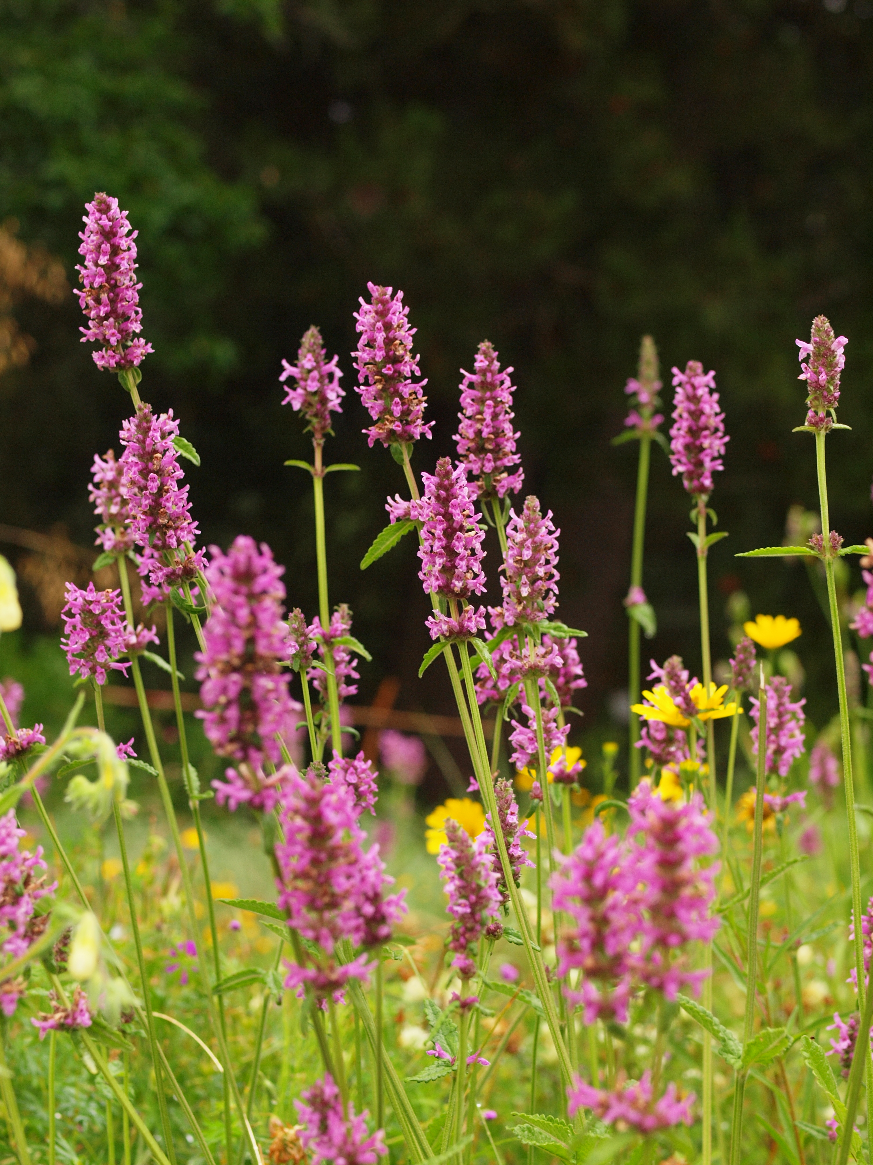 Betonica officinalis flower Munich Botanic garden